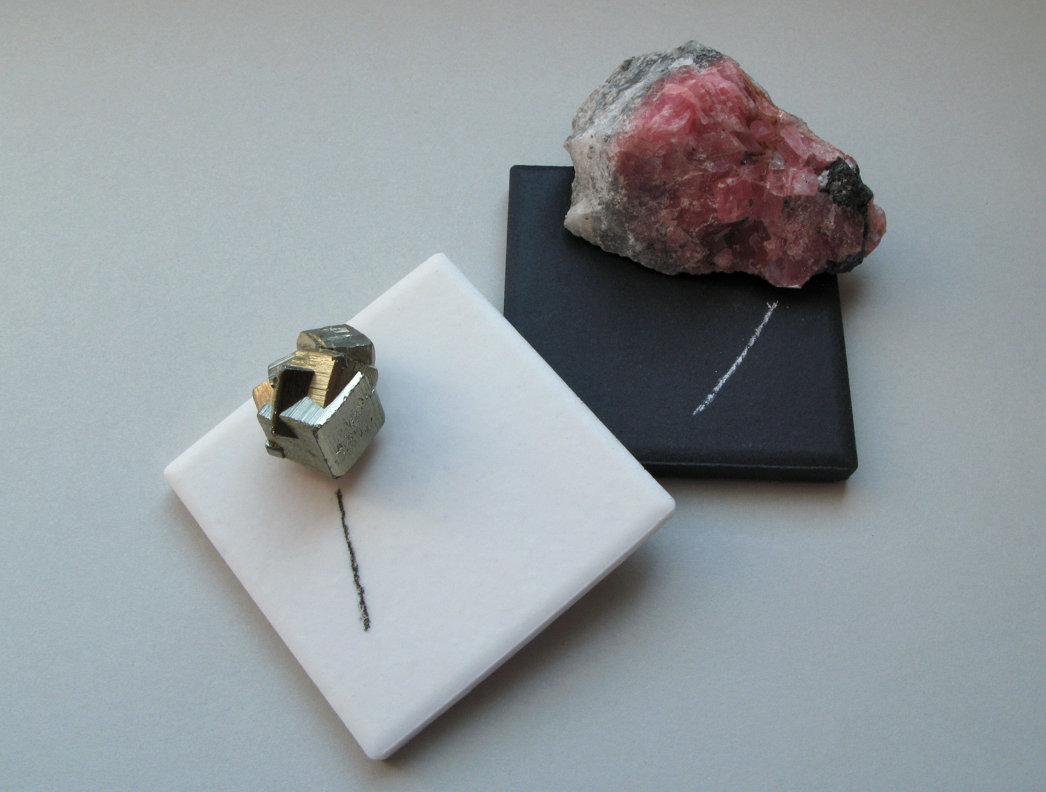 Streak plate with Pyrite and Rhodochrosite and their characteristical streak color.